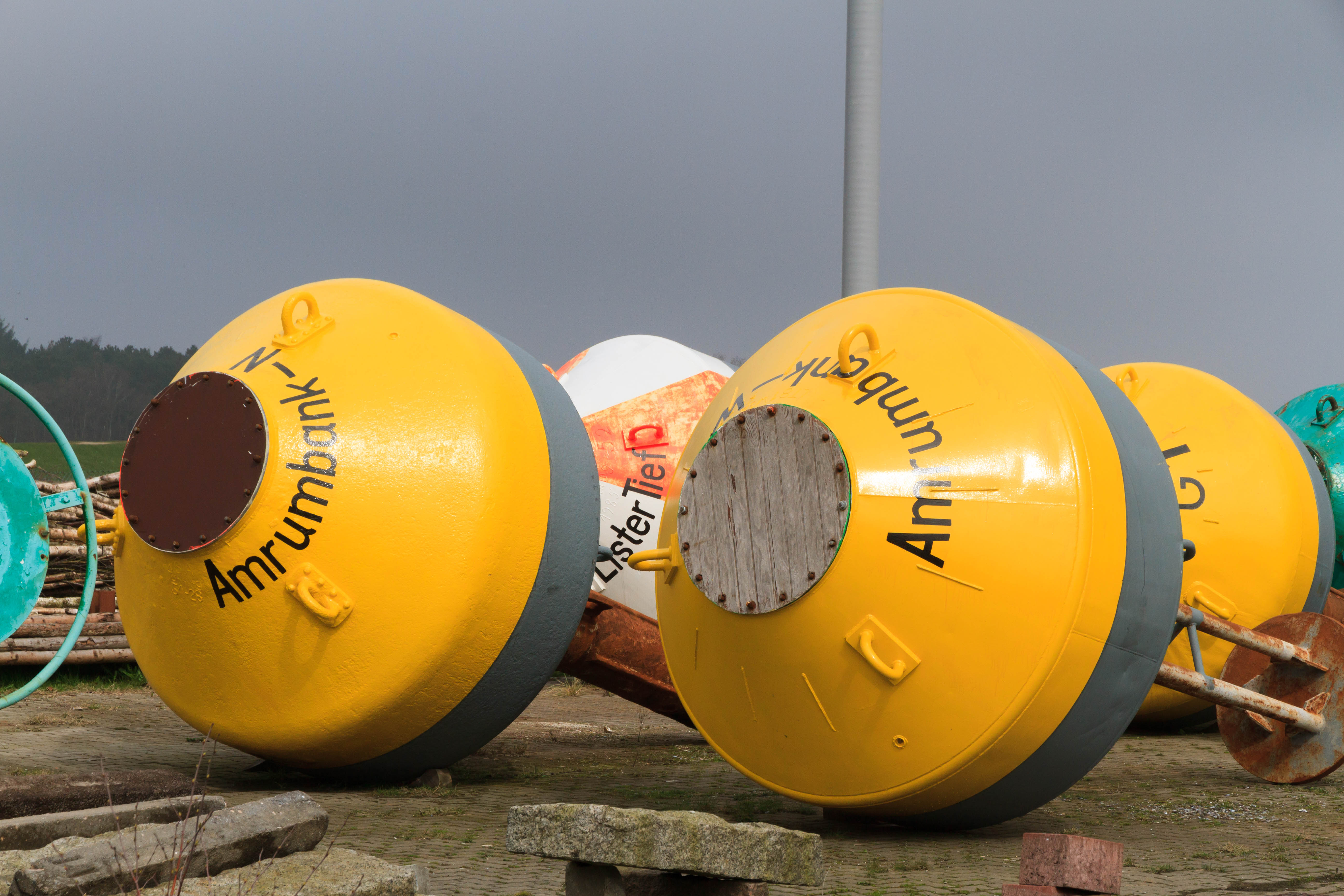 The making of this document was supported by the Community-Budget of Wikimedia Germany. Tonnen im Seezeichenhafen von Amrum